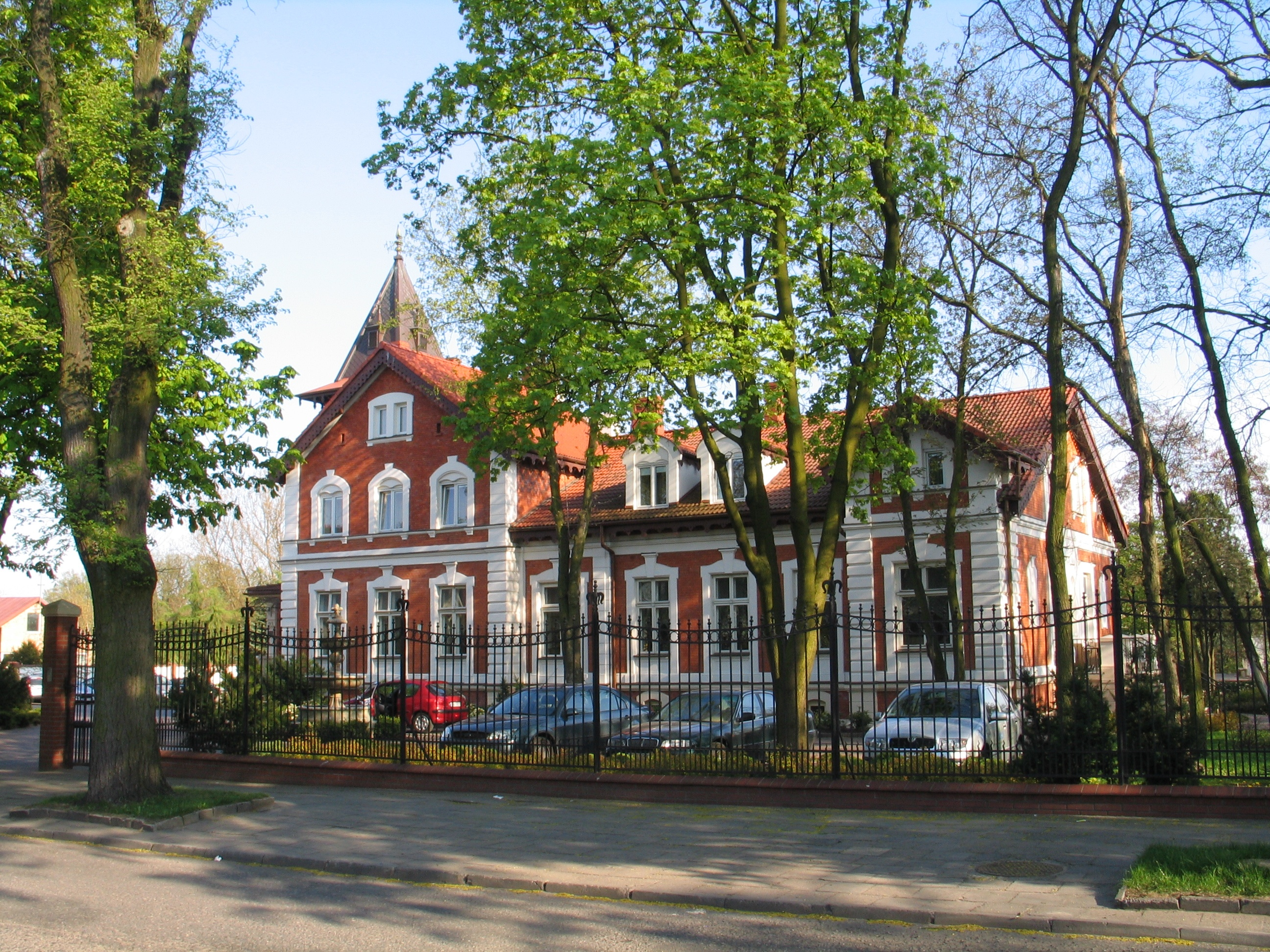 Hotel Aleksander (former Little Palace of Bojańczyk)